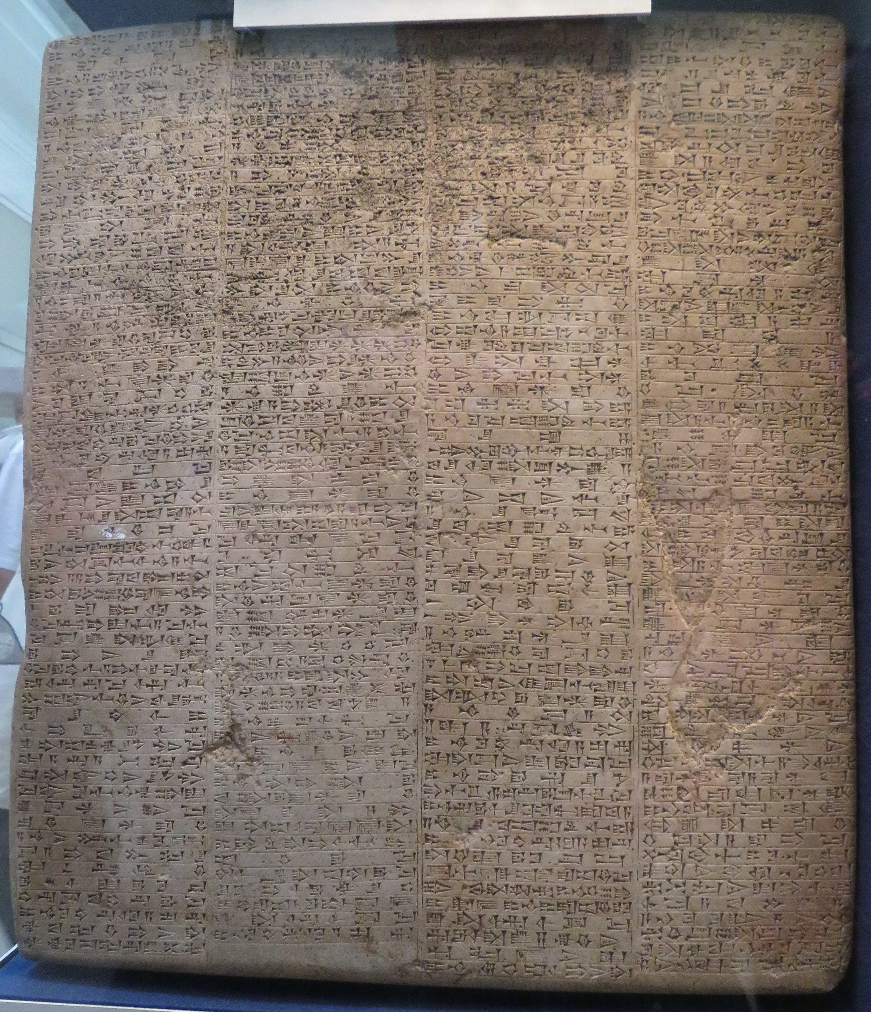 Stone from the ruins of Babylon with a long inscription describing the achievements of Nebuchadnezzar II (605-562 BC). British Museum (ME 129397).